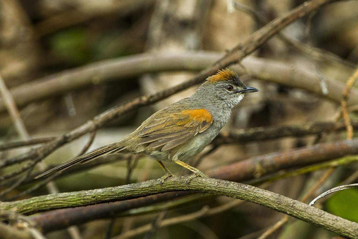 Pale-breasted Spinetail - Colombia_S4E0745